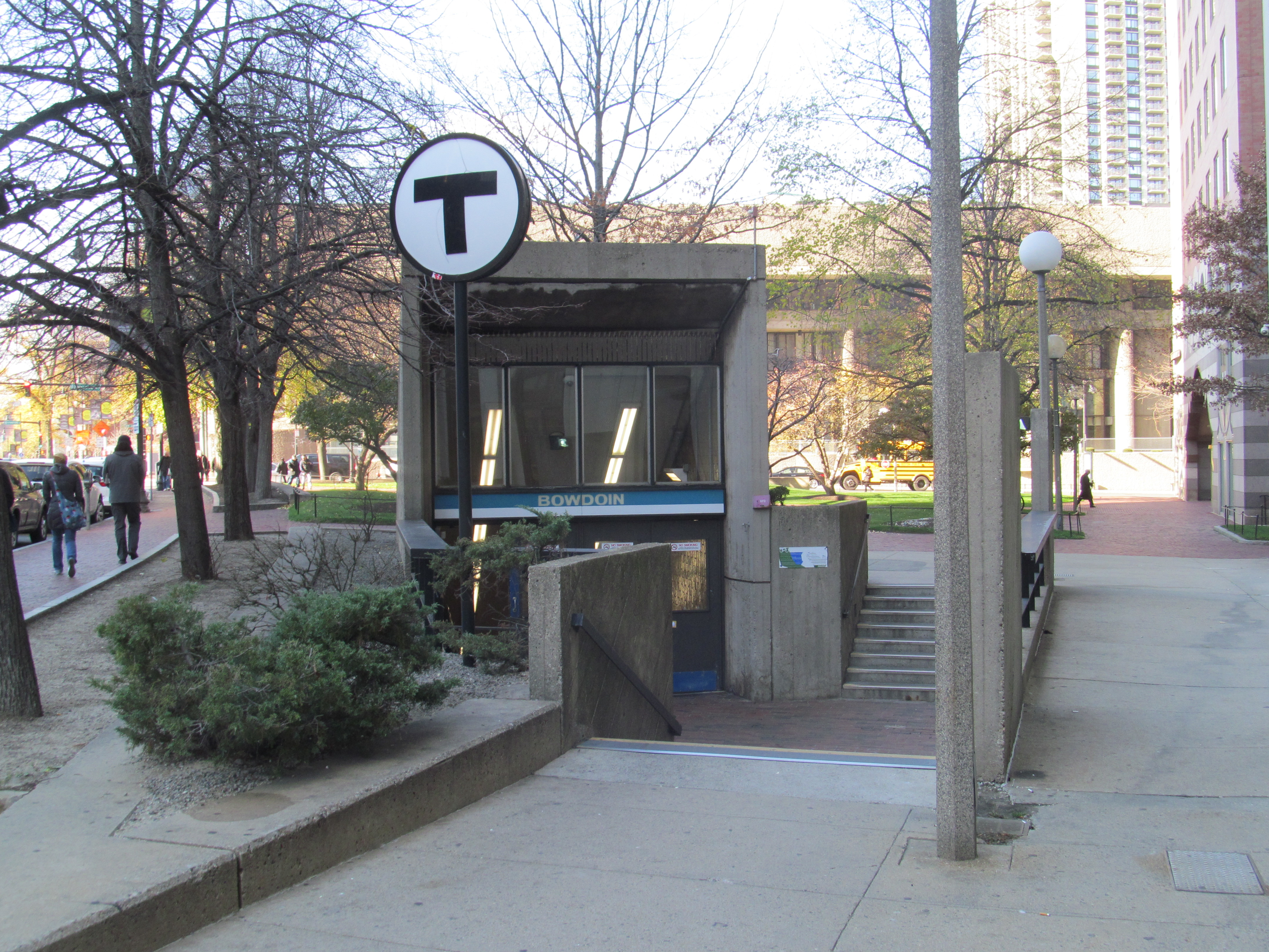 Headhouse at Bowdoin station in November 2015